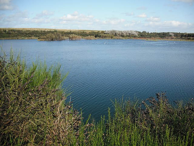 Shewalton Sandpits Nature Reserve Largest of a series of water bodies which were former sand workings.